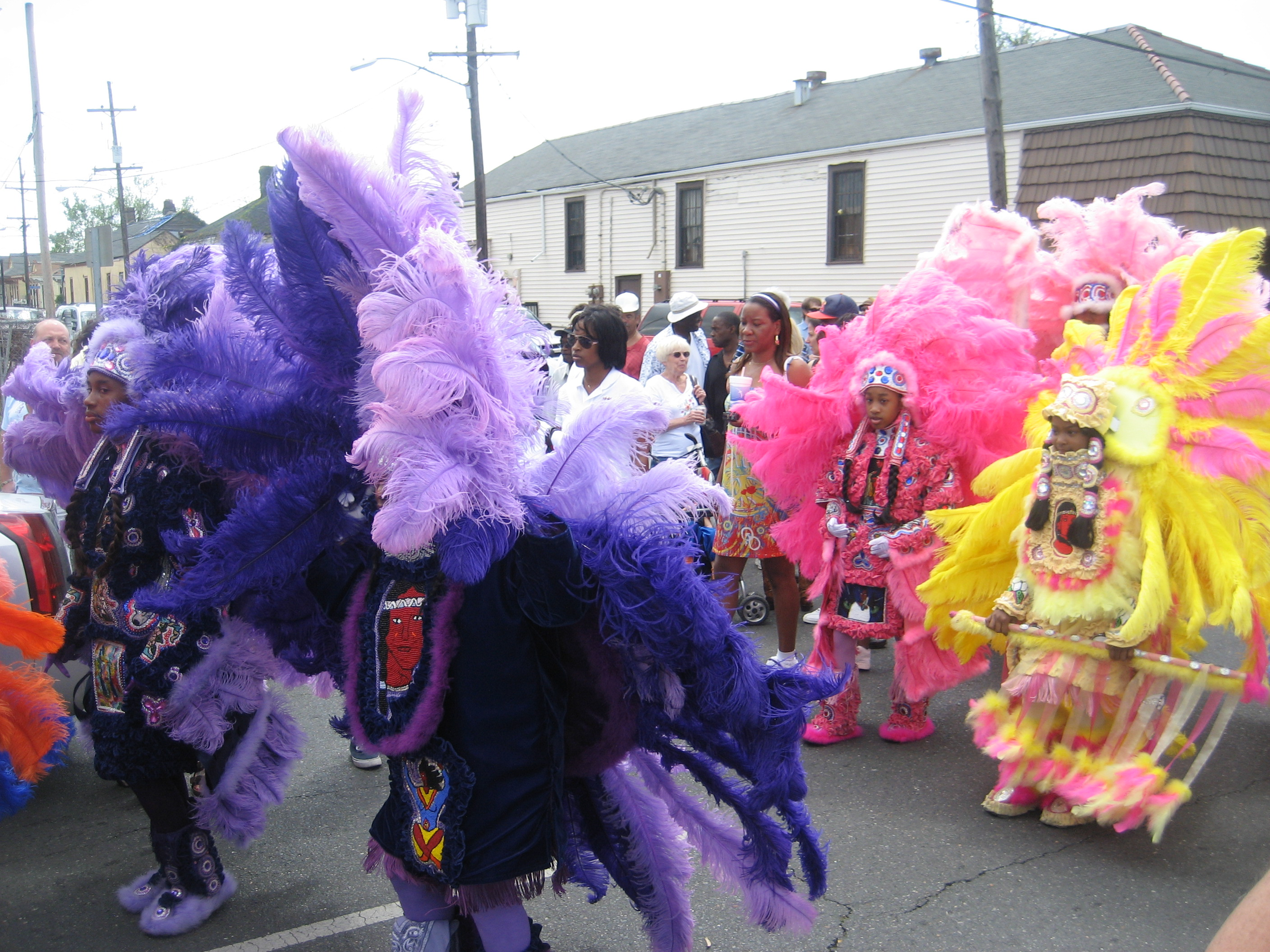 New Orleans: Mardi Gras Indians at the Uptown "Super Sunday" celebration, LaSalle Street near Washington Avenue.